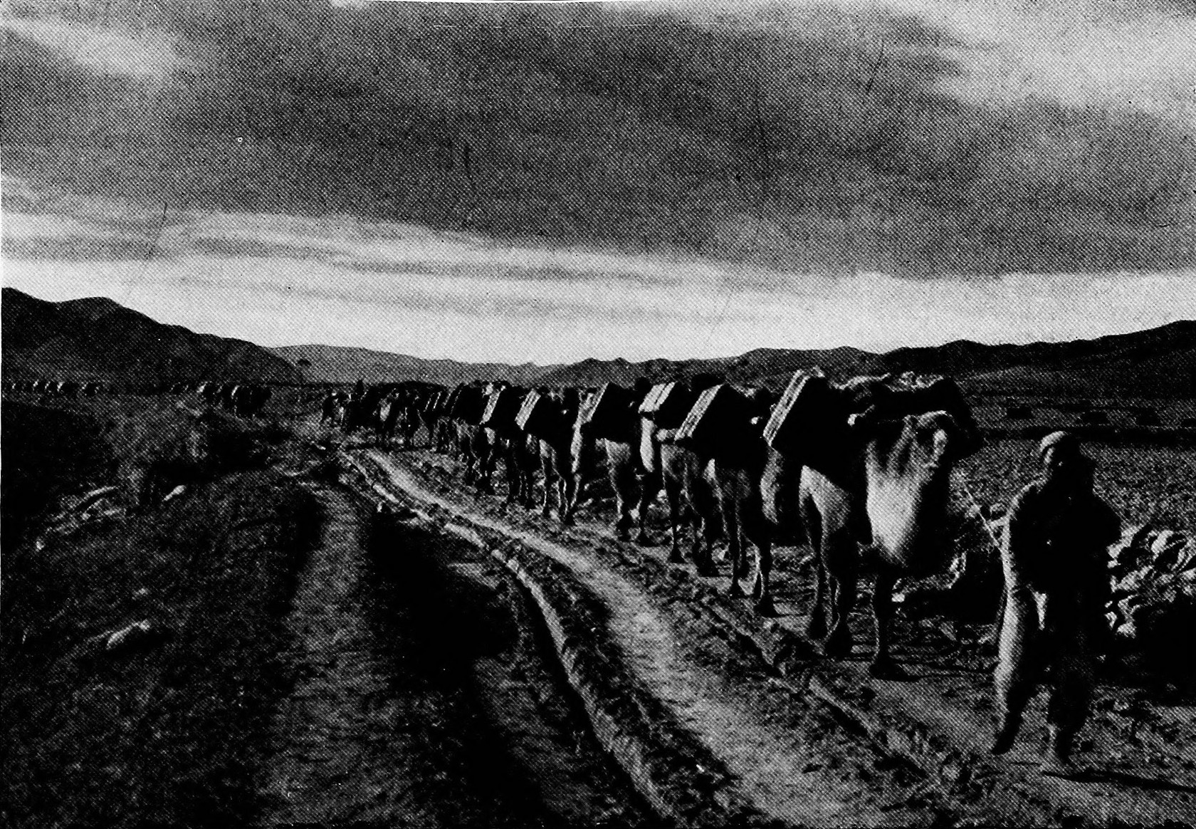 Photo from Across Mongolian Plains A Naturalist's Account of China's "Great Northwest"